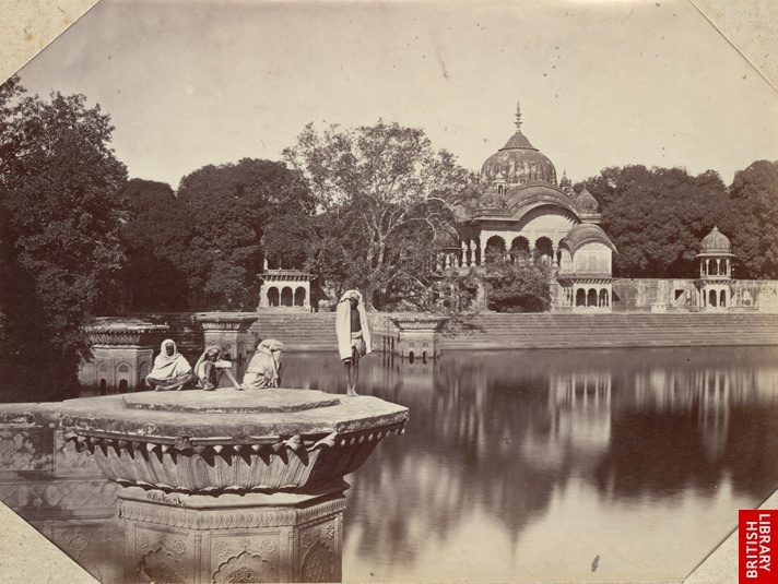 Temple of Kishn Soraba, Gobardun [View across the Kusum Sarovar Tank towards Suraj Mal's Cenotaph, Gobardhan]; a photo by William Henry Baker, 1860's* (BL)